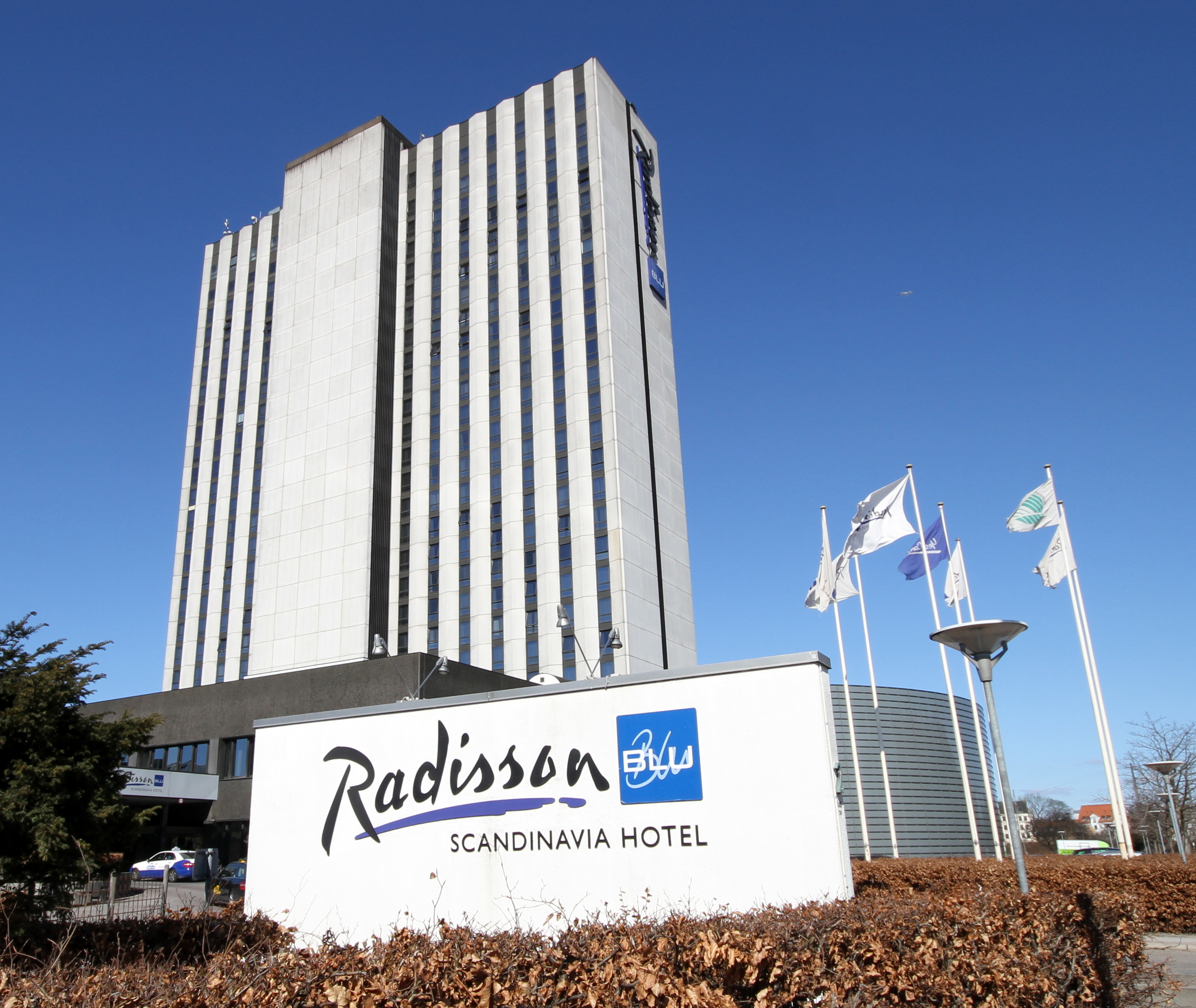 Hotel Scandinavia in Copenhagen